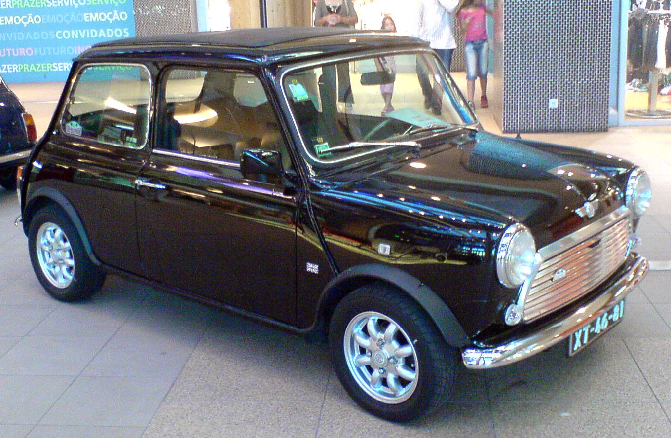 A Mini Cooper from 1991. Photographed inside the Dolce Vita shopping in Porto.